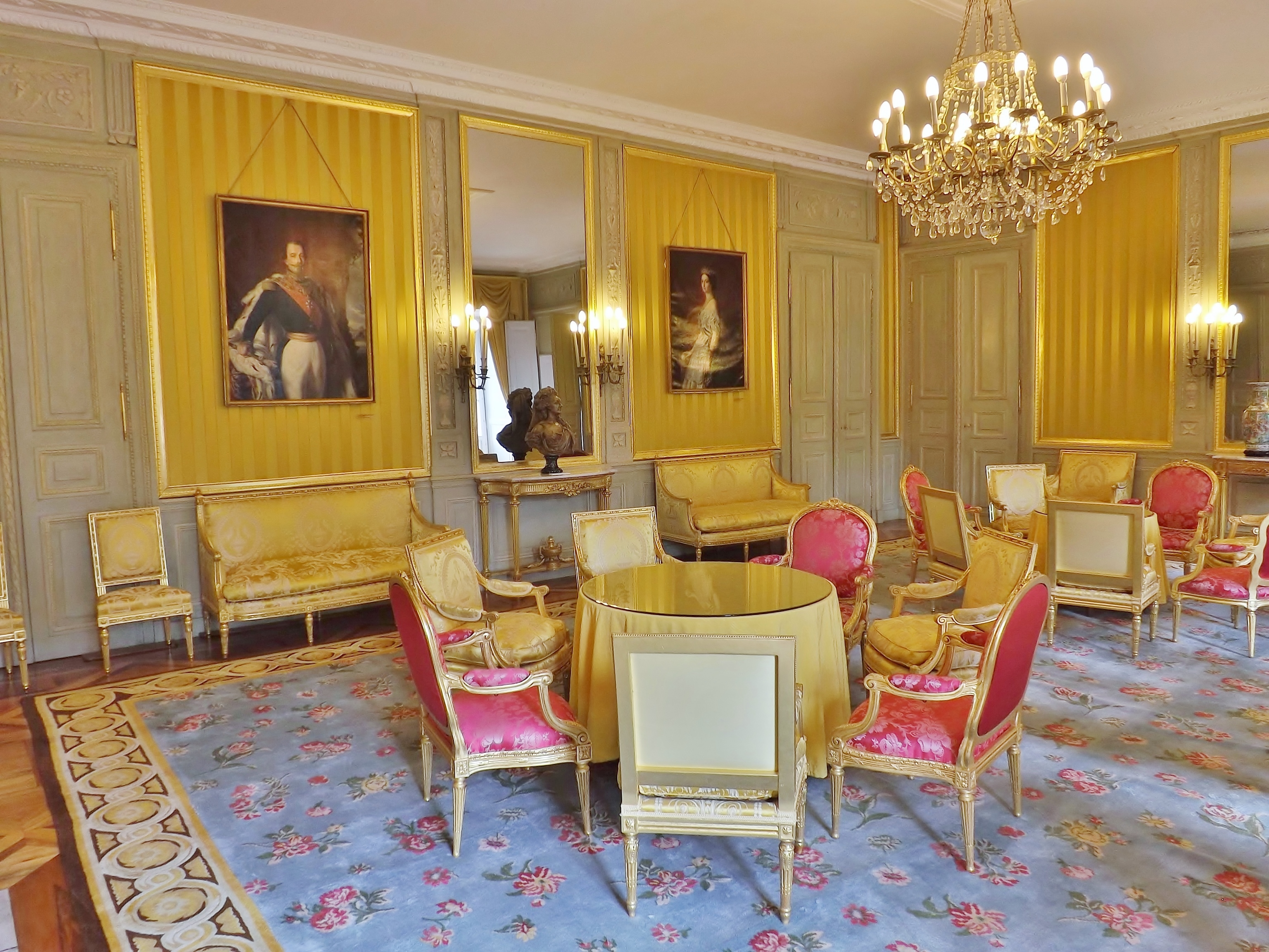 Inside of the chambre jaune chamber (also called salon jaune) in the château des Ducs de Savoie castle of Chambéry in Savoie, France. In this room was the treaty of union between Savoie and France signed in 1860. At the wall can be seen portraits of Louis Napoléon Bonaparte, emperor of France at that time, and his spouse, Impératrice Eugénie.